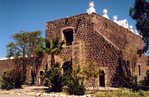 Mission de Santa Rosalía de Mulege — in Mulegé oasis, northeastern Baja California Sur state, México.